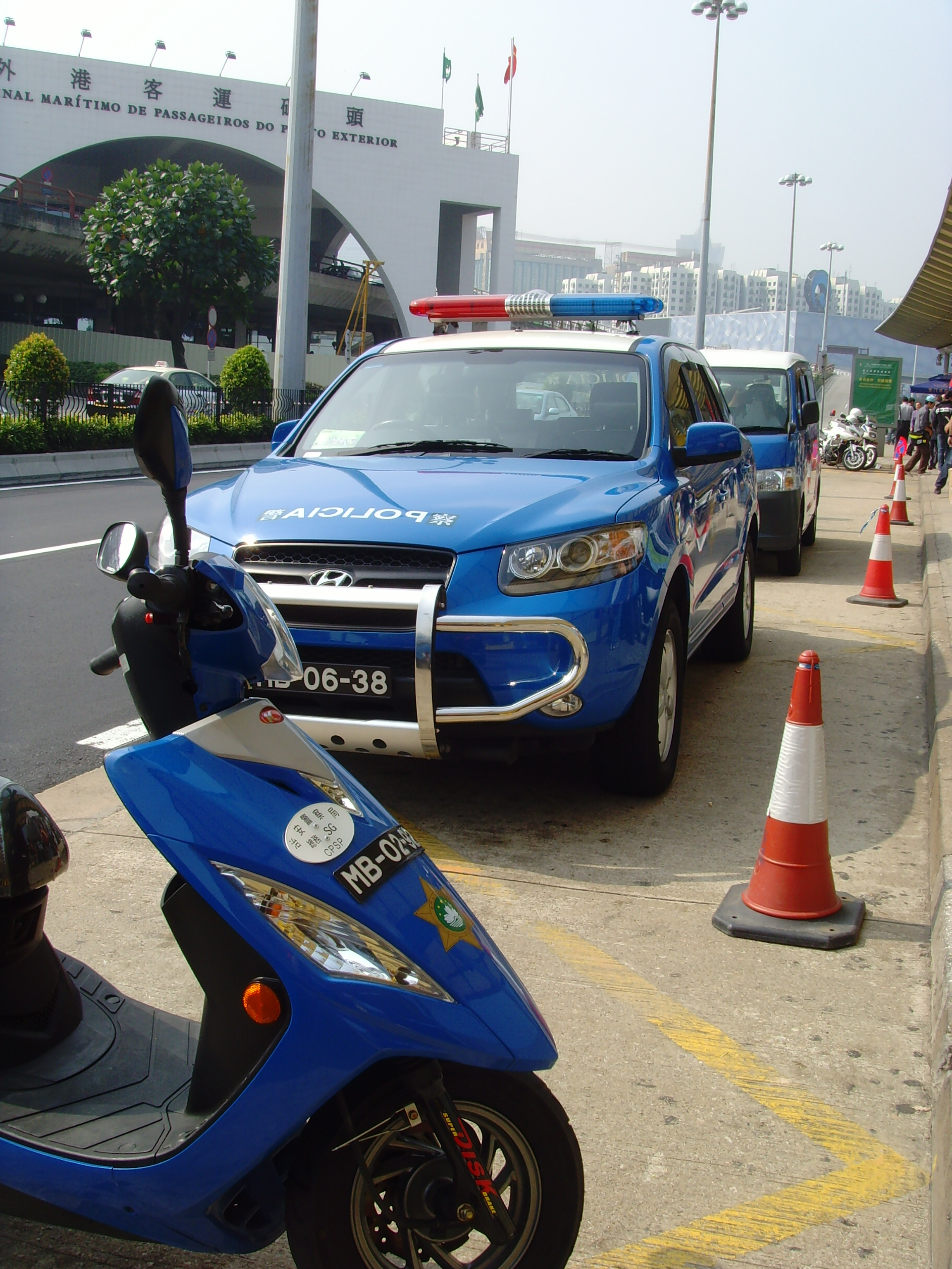 Public Security Police Vehicles parked in the 2010 Macau Grand Prix.